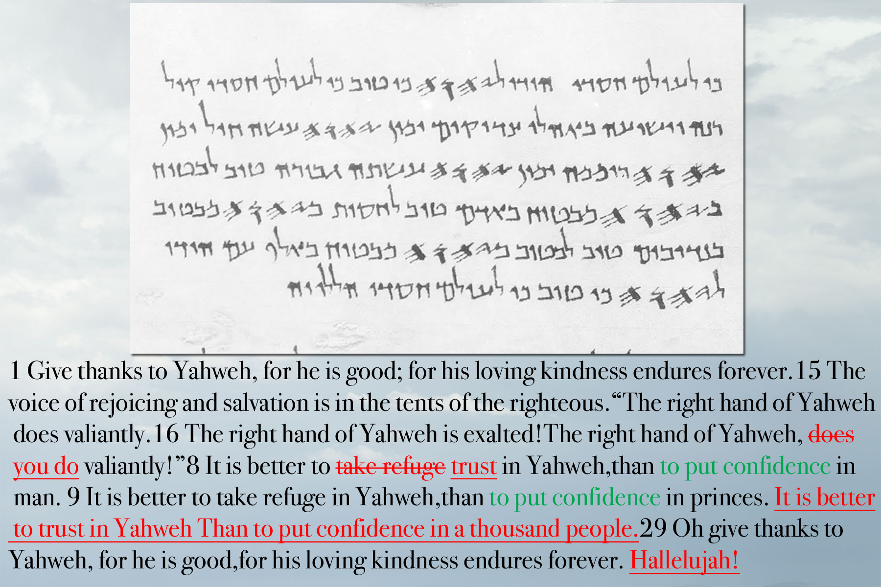 Image with the Dead Sea Scroll fragment 11Q5 with Psalm 118 and a translation of the text at the bottom. The translation includes information about how the scroll differs from Psalm 118 in the Masoretic Text version of the Hebrew Bible.